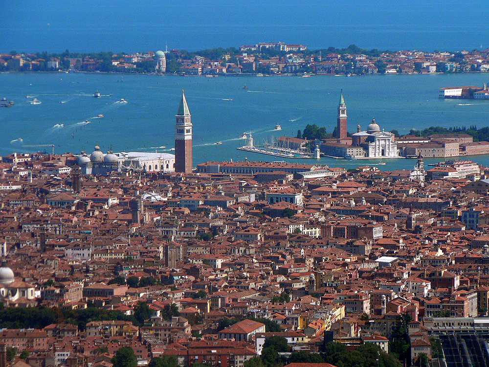 Venezia. View from air